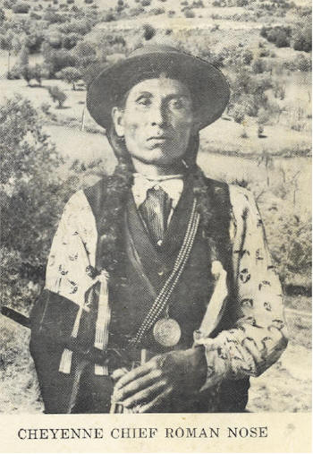 This is a photograph of the Southern Cheyenne Chief Henry Roman Nose. Distinguish from the Northern Cheyenne warrior leader Roman Nose.